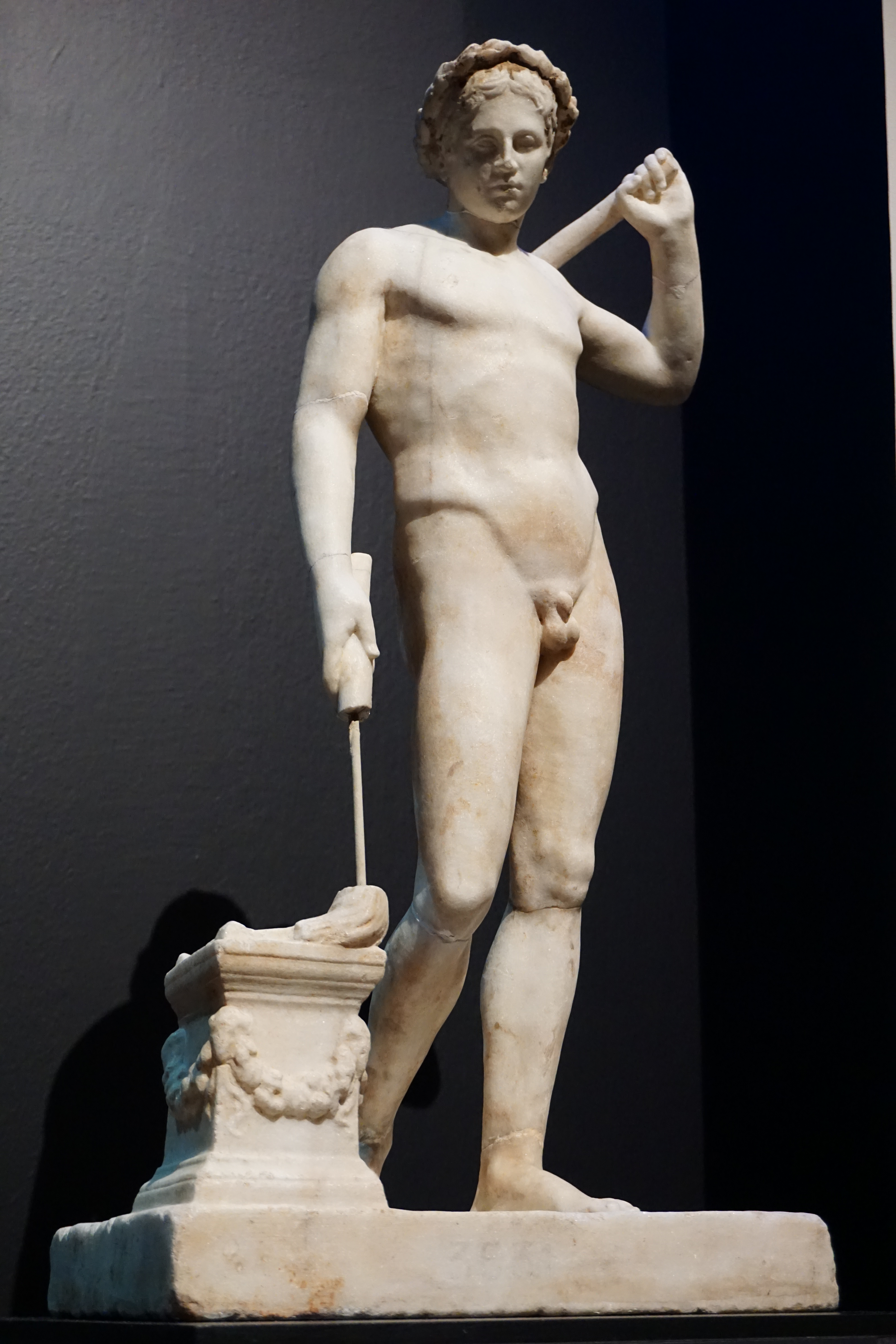 Marble statuette of a naked youth. Unknown provenance. Late 1st century B.C. version of a figure of a group, which has been interpreted either as Orestes and Pylades, or as Hypnos (Sleep) and Thanatos (Death). The personification of death is connected with the down-turned torch and the altar, which are both funeral symbols. The modelling of the figure goes back to statues of the 5th-century sculptor, Polykleitos. Inventory Number: EAM/NAM Γ 3631. National Archaeological Museum of Athens. Athens, Greece. Text: Museum inscription.